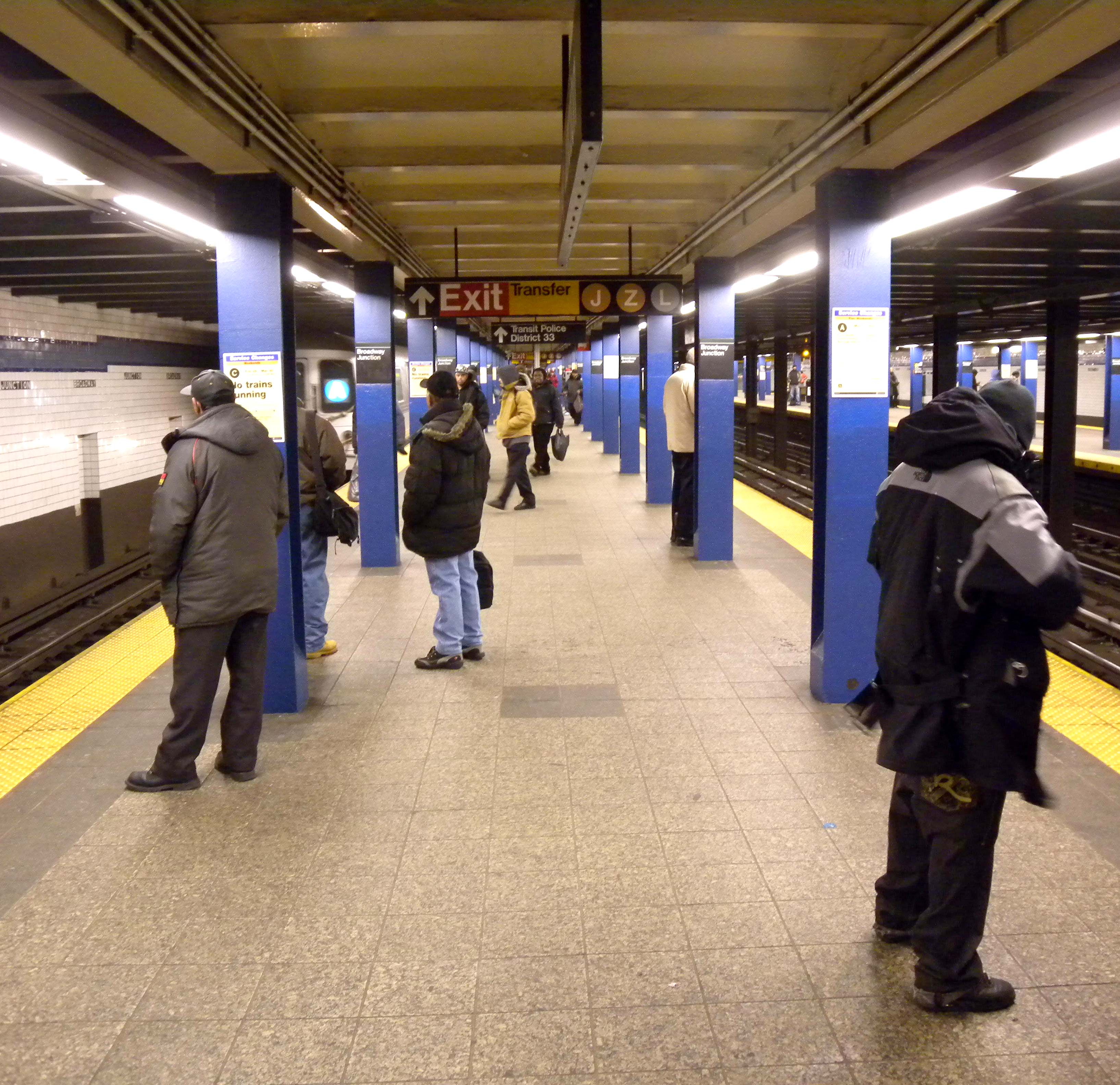 Looking east as a westbound (RR north) A train arrives at Broadway Junction.